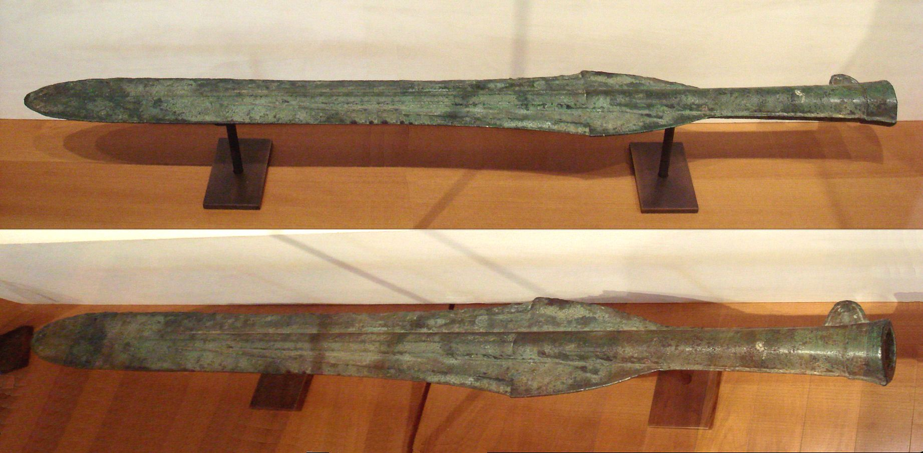 Yayoi Bronze Spear Tip 1-2nd Century, Kyushu (doken)